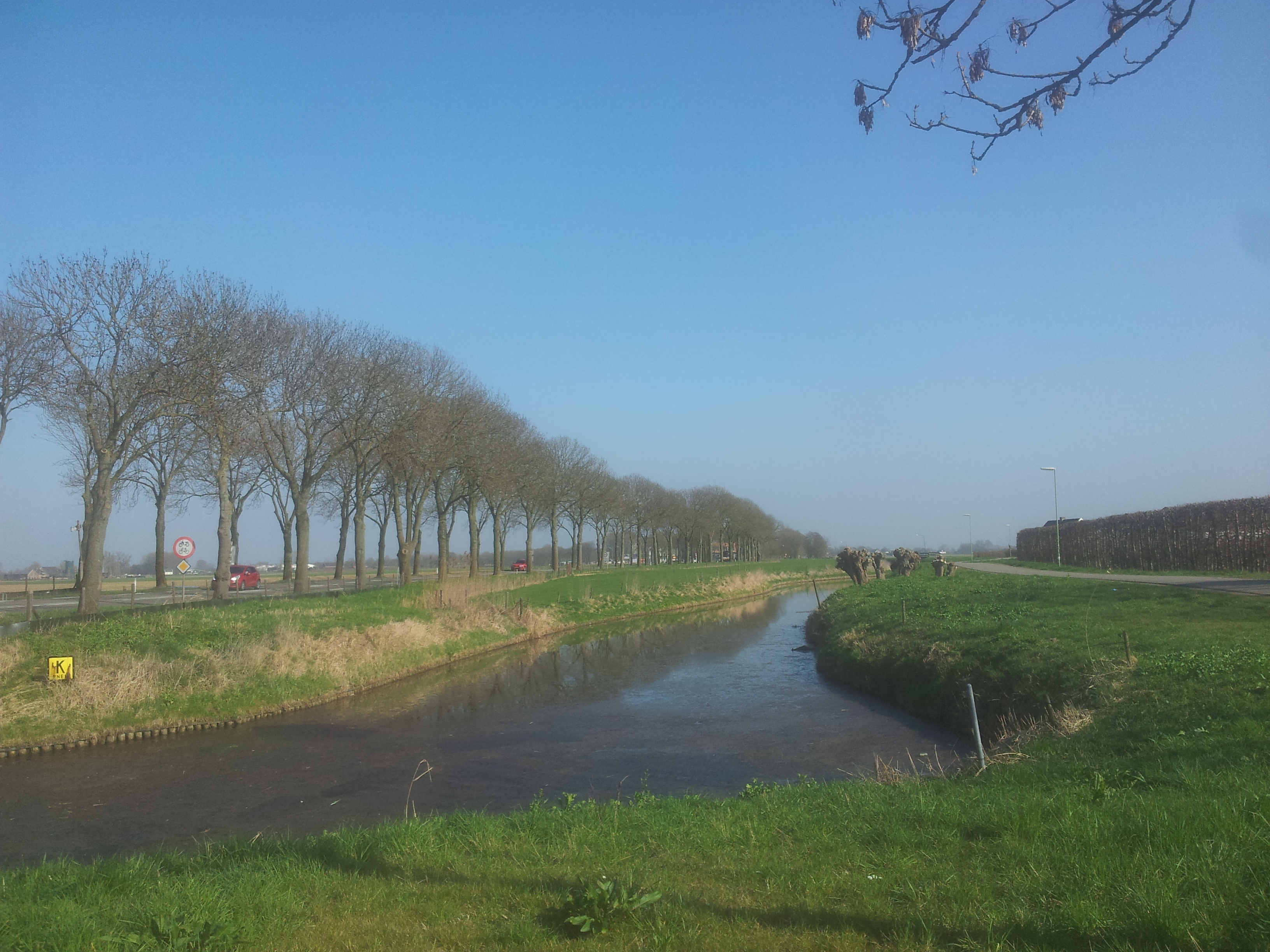 The Alm near Nieuwendijk, Netherlands